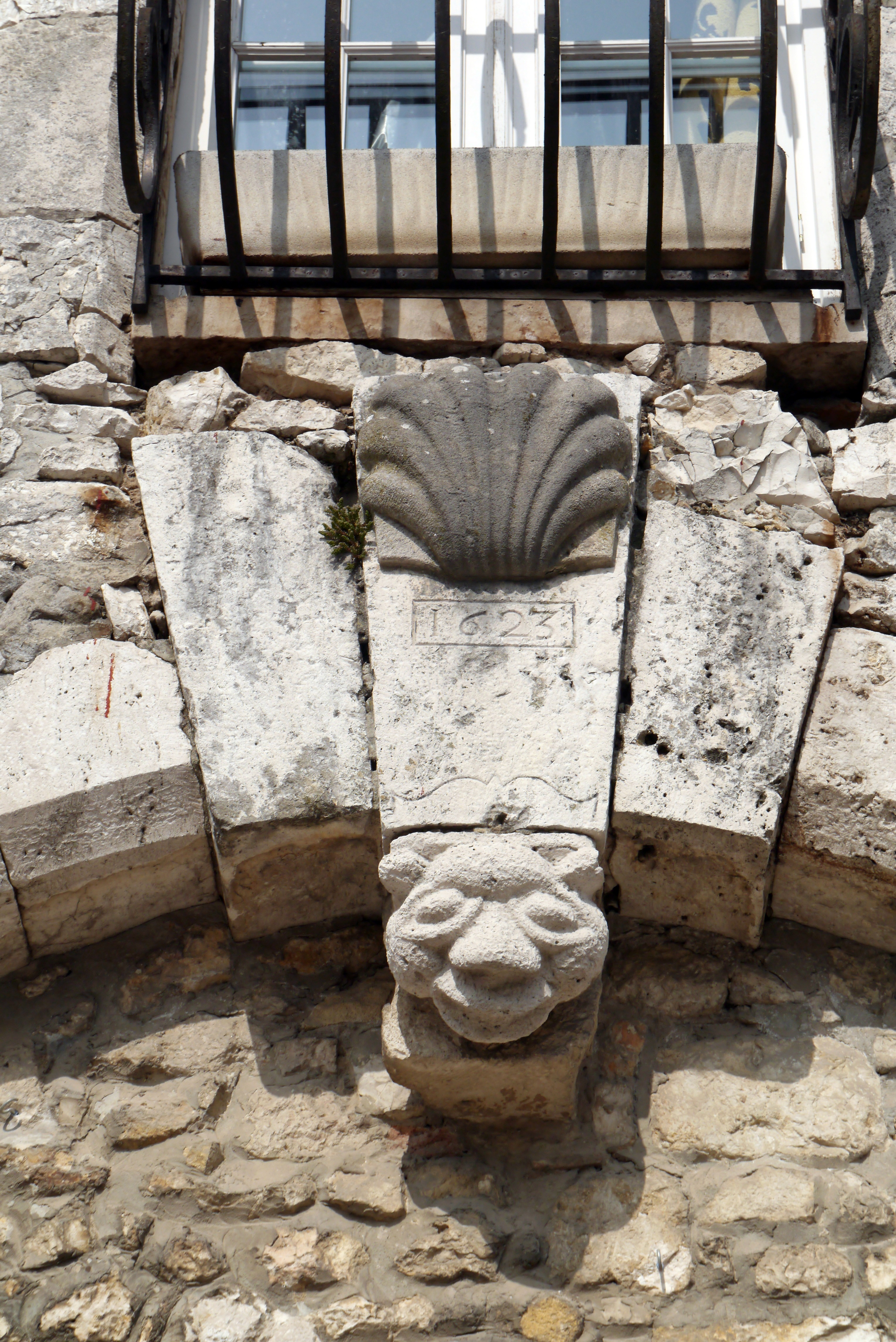 Hôtel de la Coquille, Provins.